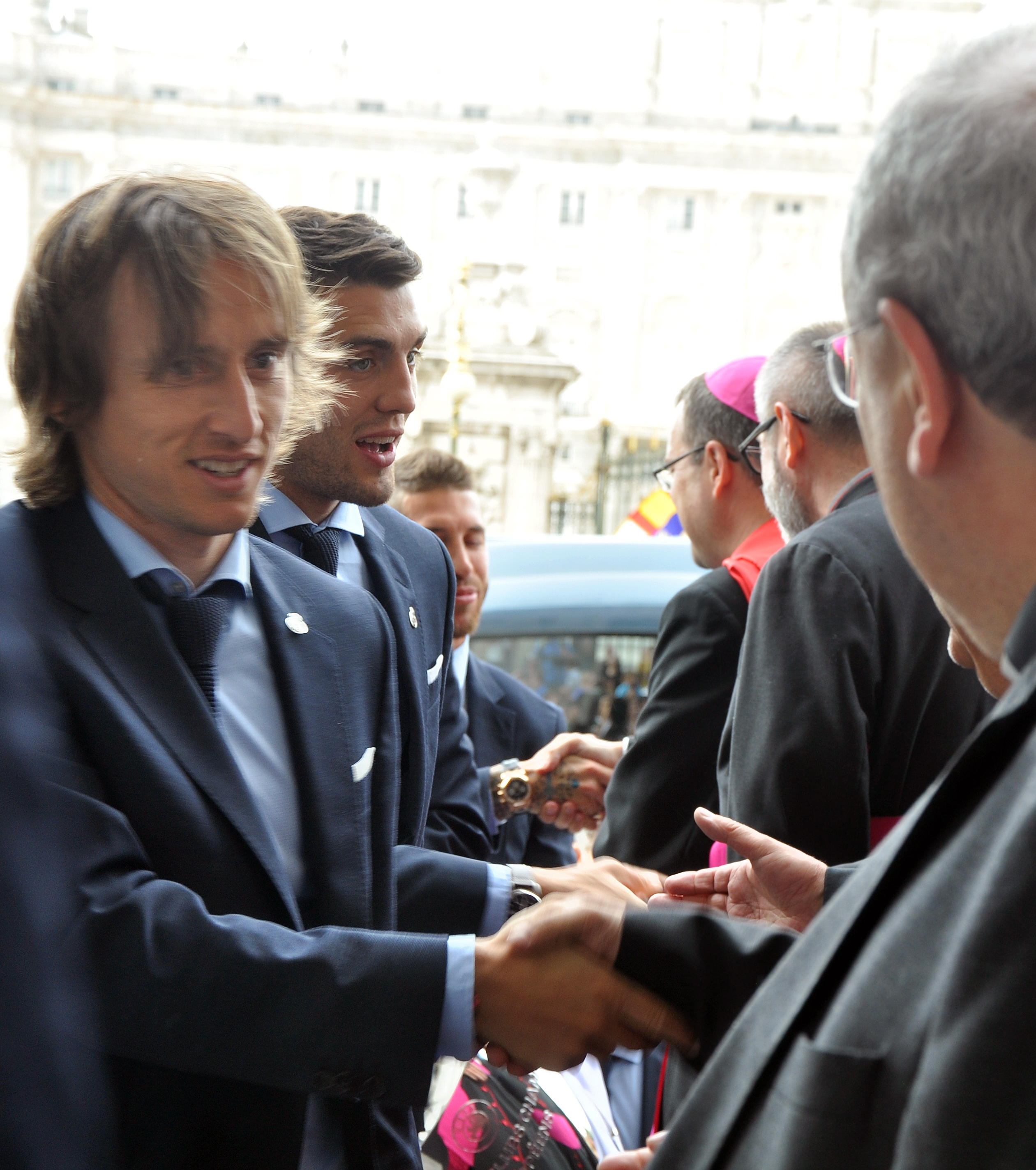 El Real Madrid ofrece la Champions a la Virgen de la Almudena.